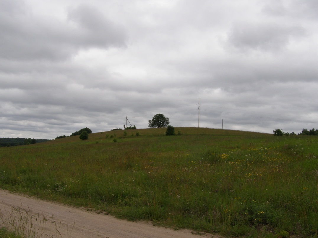 Gintarai hillfort, Kretinga district, Lithuania